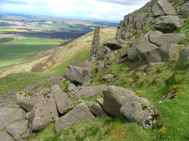 Carlin Maggie on West Slope Bishophill.